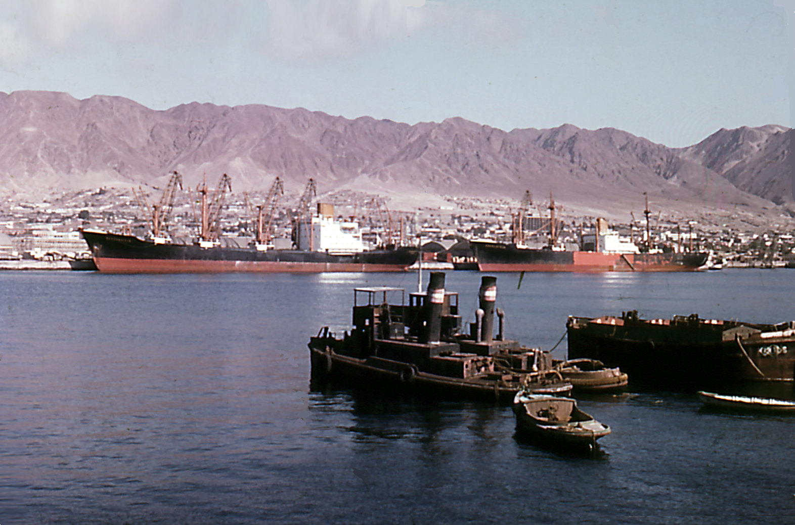 Two cargo ships of the North German Lloyd, Bremen in the Chilean port of Antofagasta. - On the left side MS Buchenstein, a ship of the Burgenstein-class, right behind TS Havelstein, a ship of the Weserstein-class. - 1963